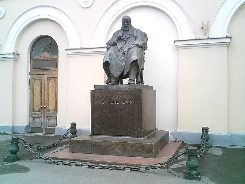 Alexander Ostrovsky Russian Dramatist